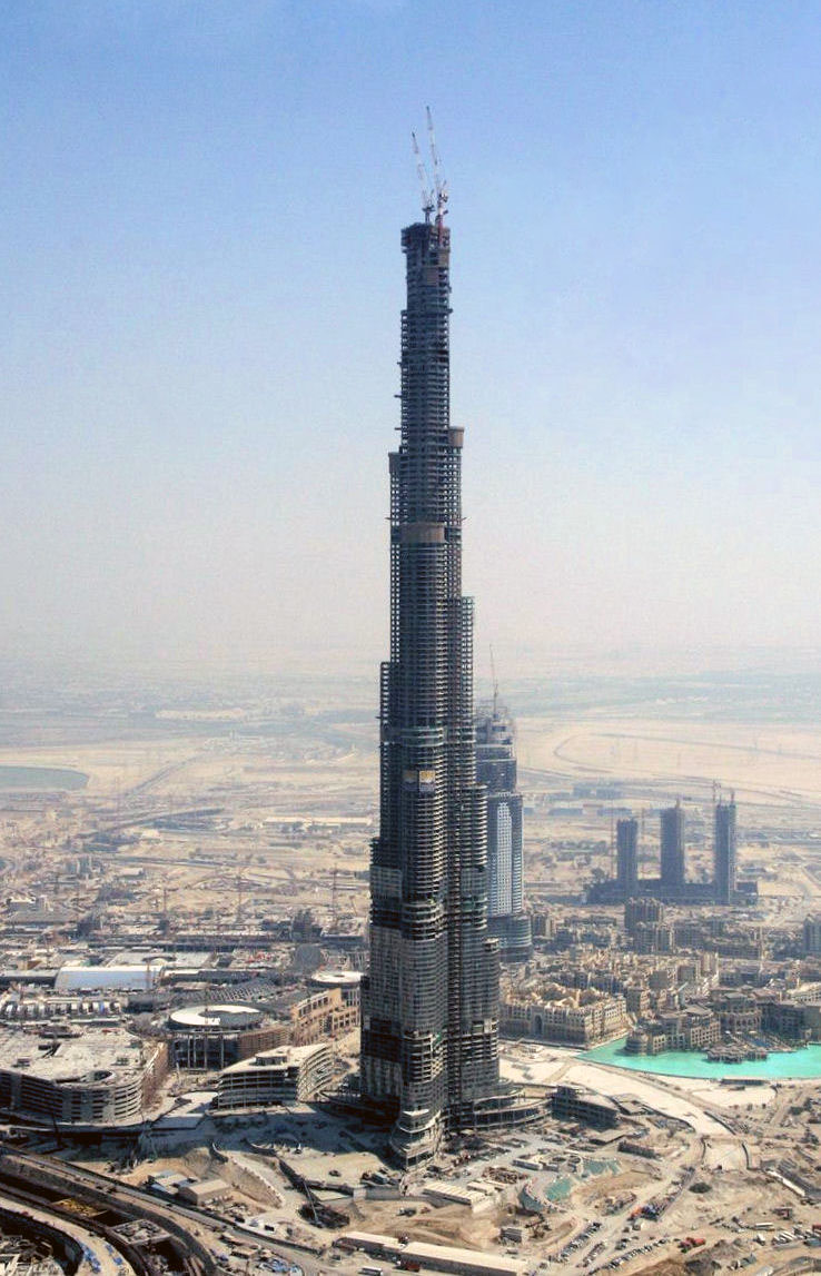 Aerial photograph of Burj Dubai